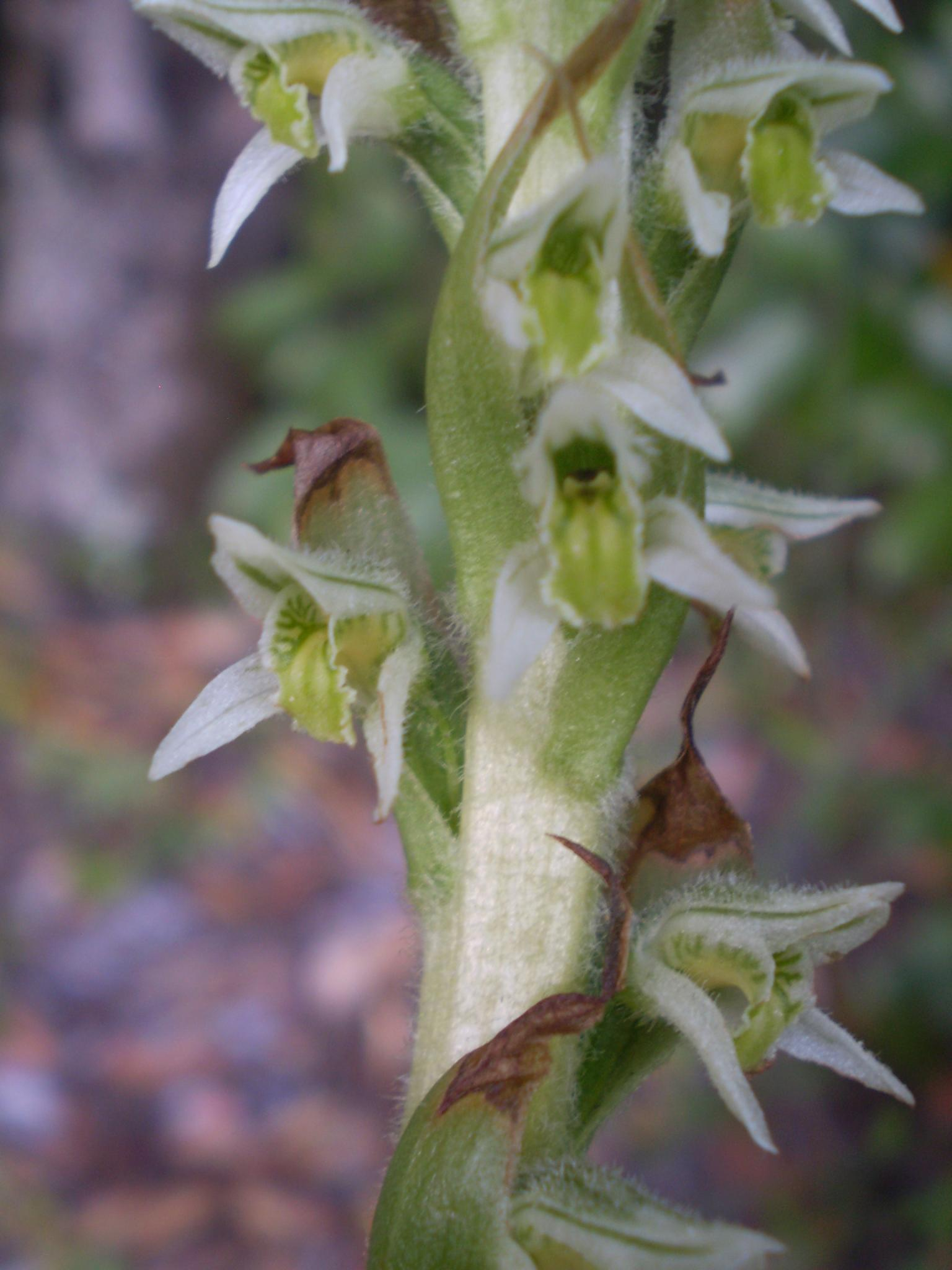 Brachystele unilateralis